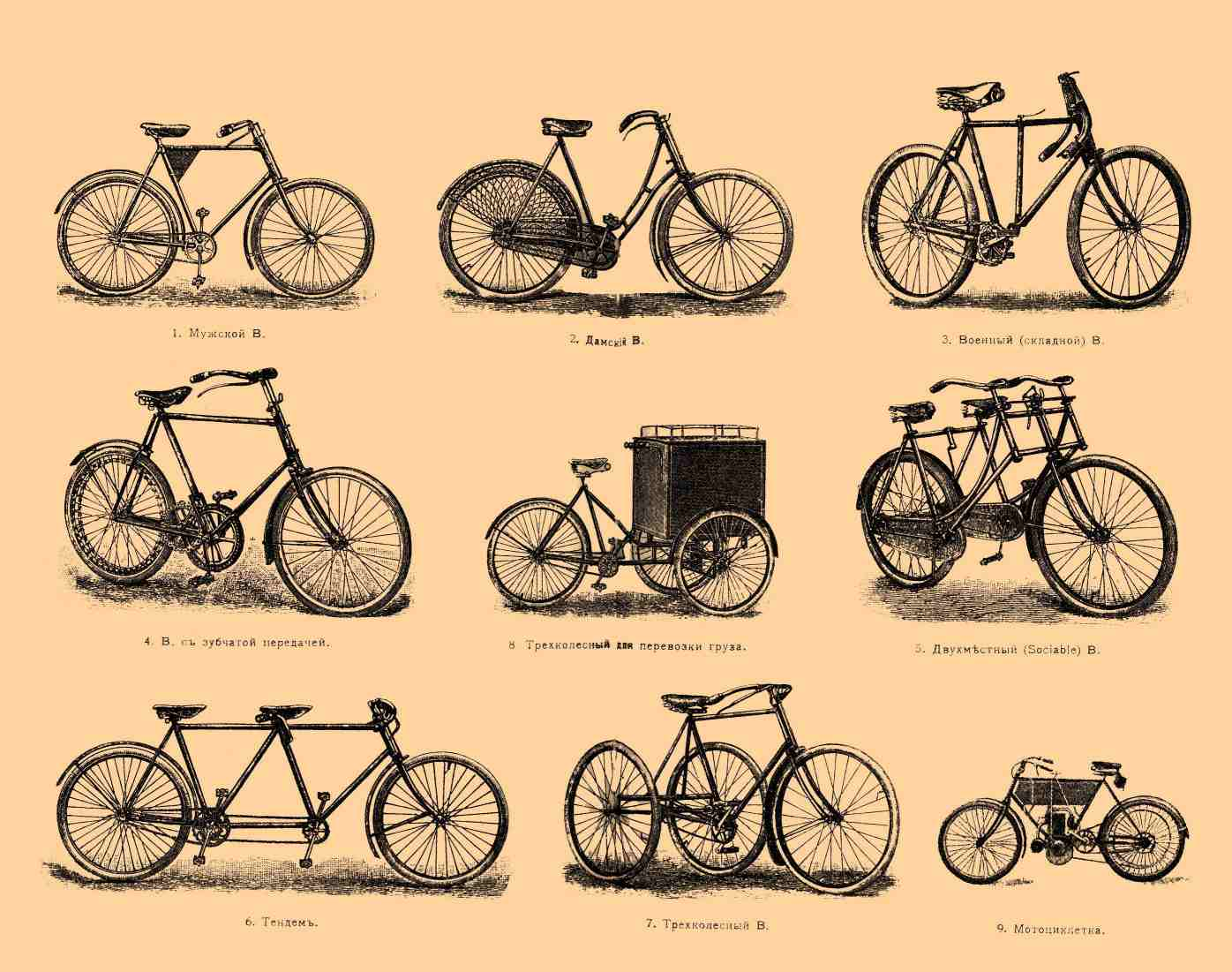 Bicycles. Draving from the Brockhaus and Efron Encyclopedic Dictionary, 1890-1907